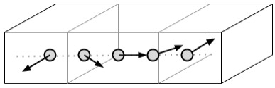 Hey, i can modify that later ... right ? A neel Domain wall